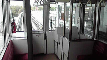 Nankō Port Town Line in Osaka (New Tram), Port Town-higashi Station. Front car without driver